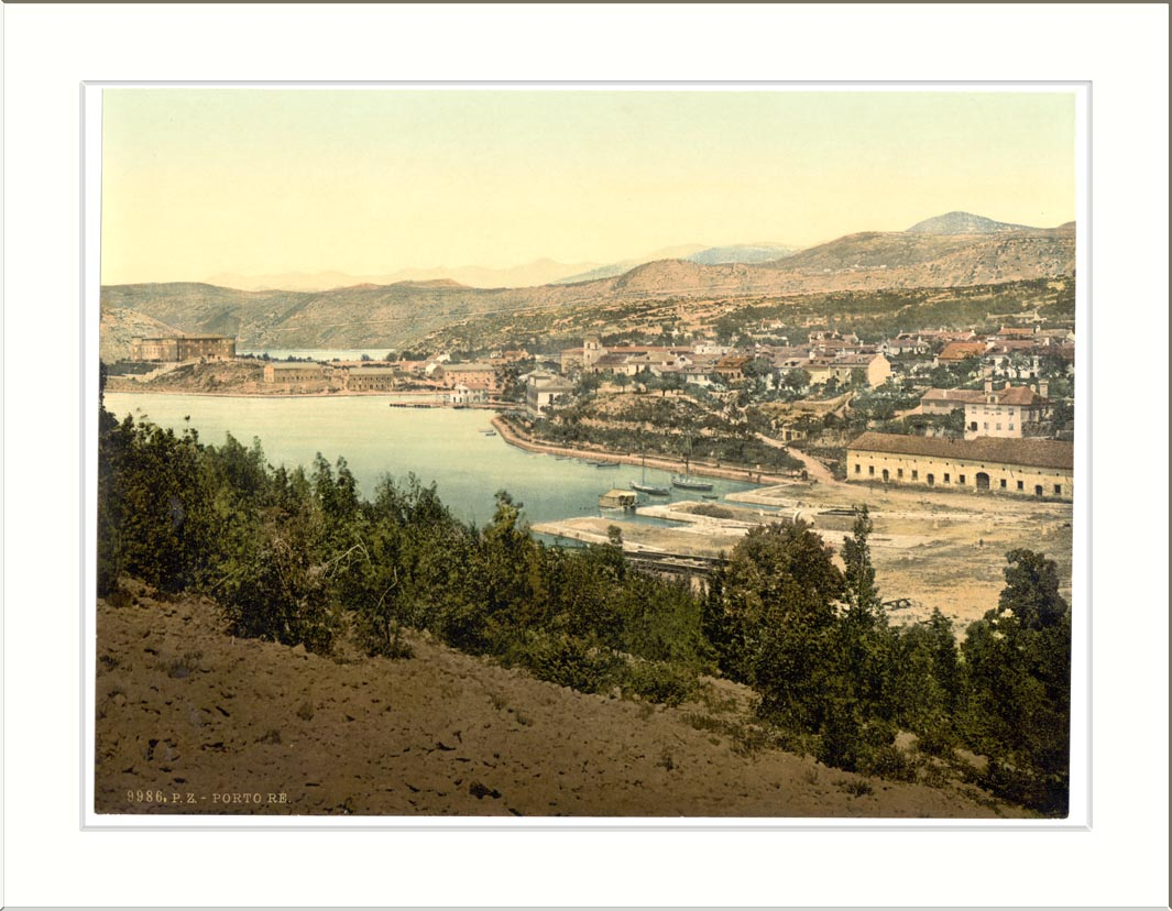 Portoré general view Croatia Austro-Hungary